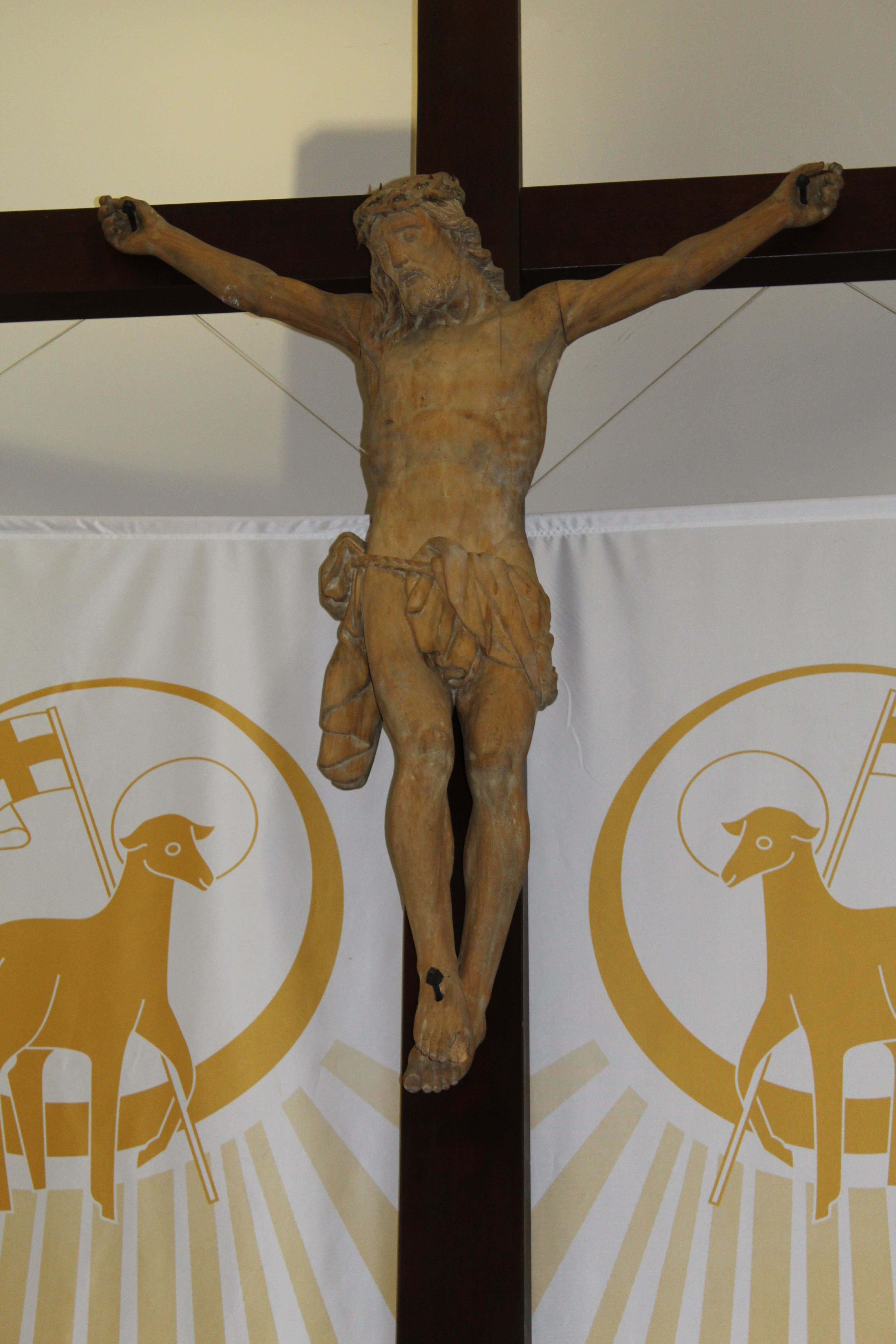 Phote of the beginning of 2018. The statue is now removed for restoration.